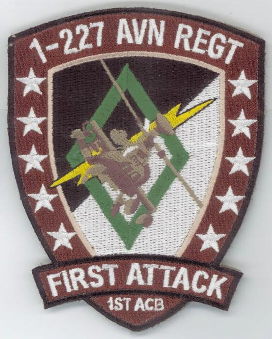 Current patch of 1-227 AV Regt